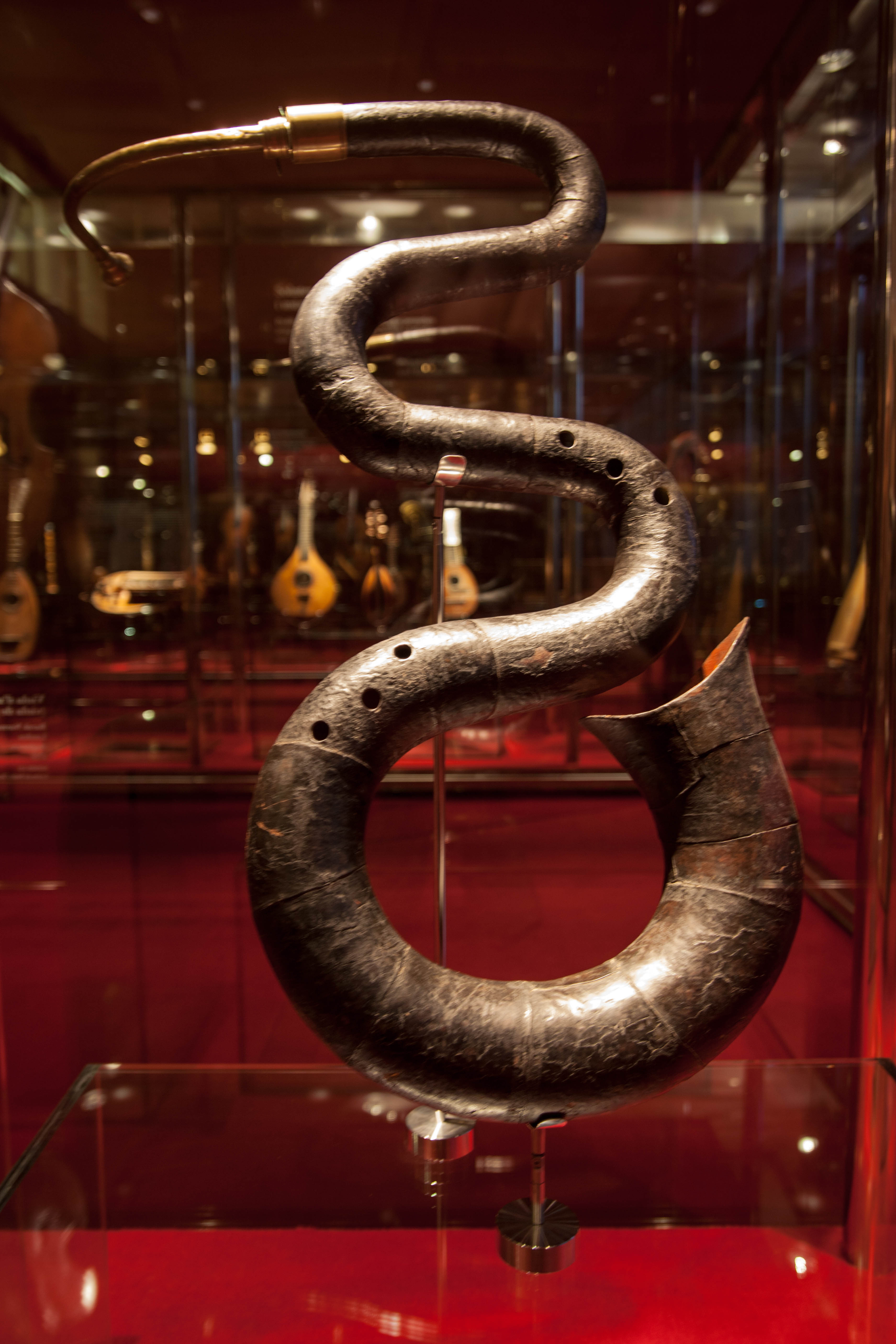 Serpent at Museu de la Música de Barcelona References MDMB 494 : serpentó (1600-1900). Museu de la Música, El web de la ciutat de Barcelona.